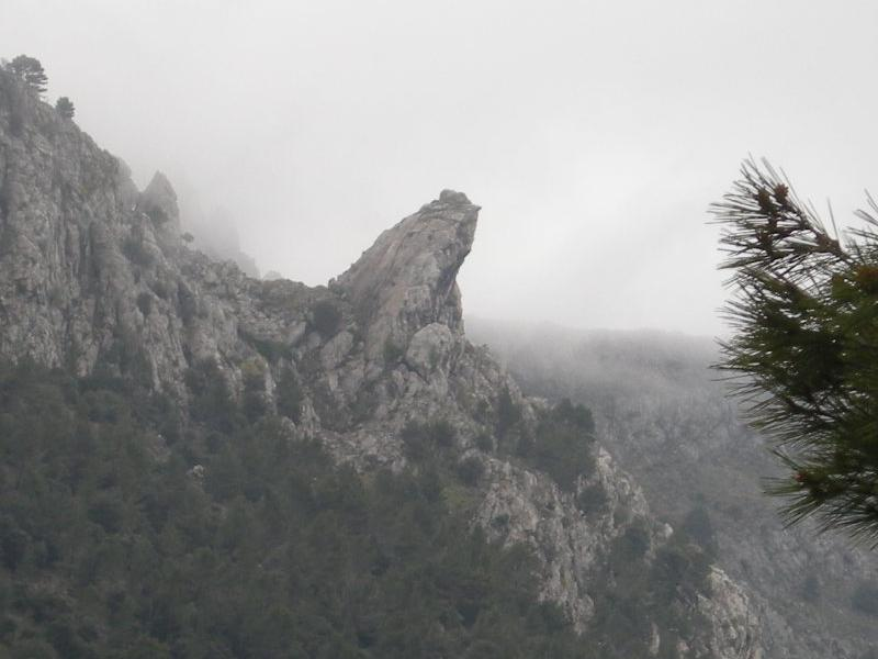 Penyal Xapat des de la Ma-10 a l'altura de la Coma de n'Arbona (Km. 38)